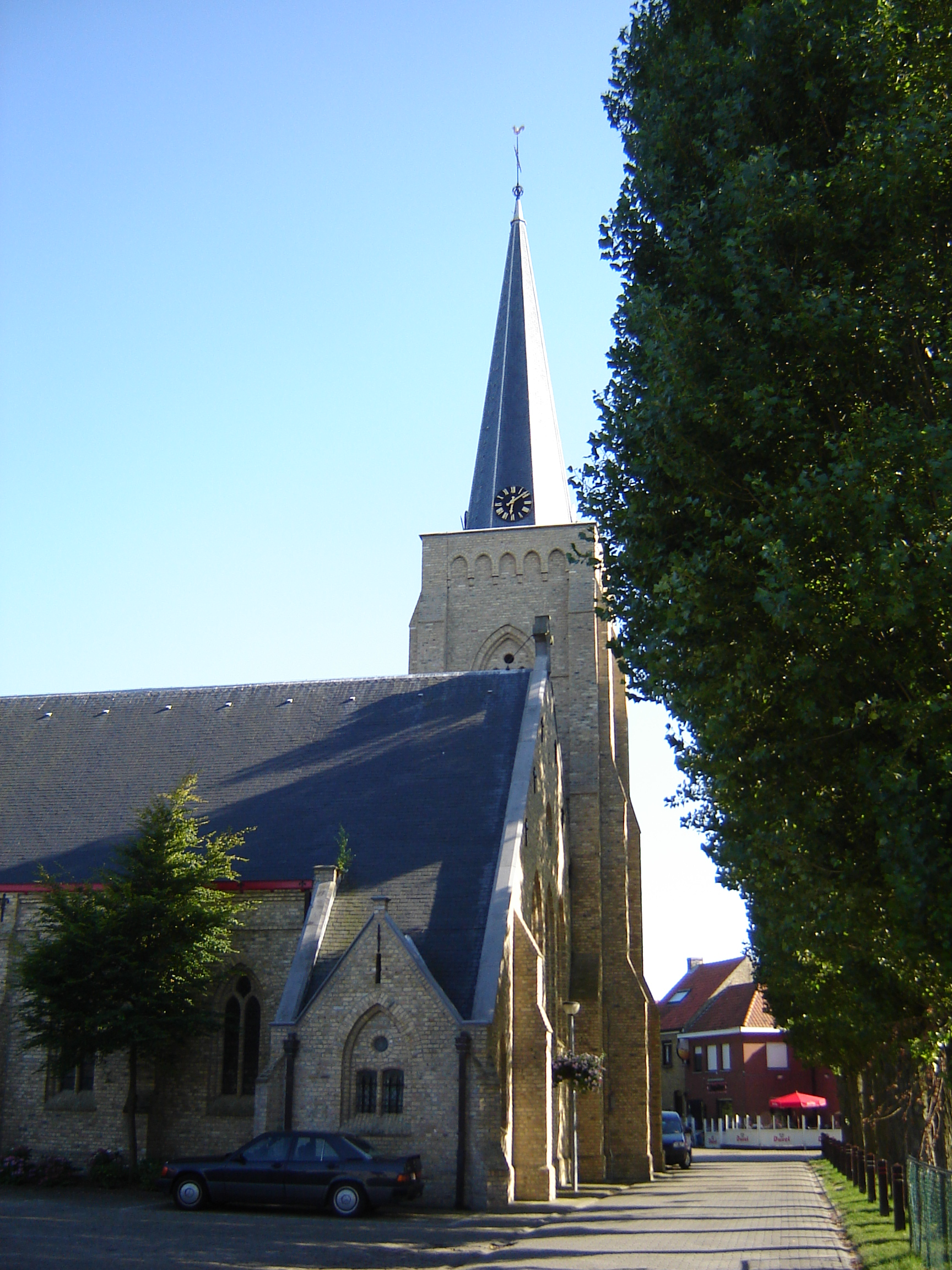 Church of Saint George in Sint-Joris. Sint-Joris, Nieuwpoort, West Flanders, Belgium